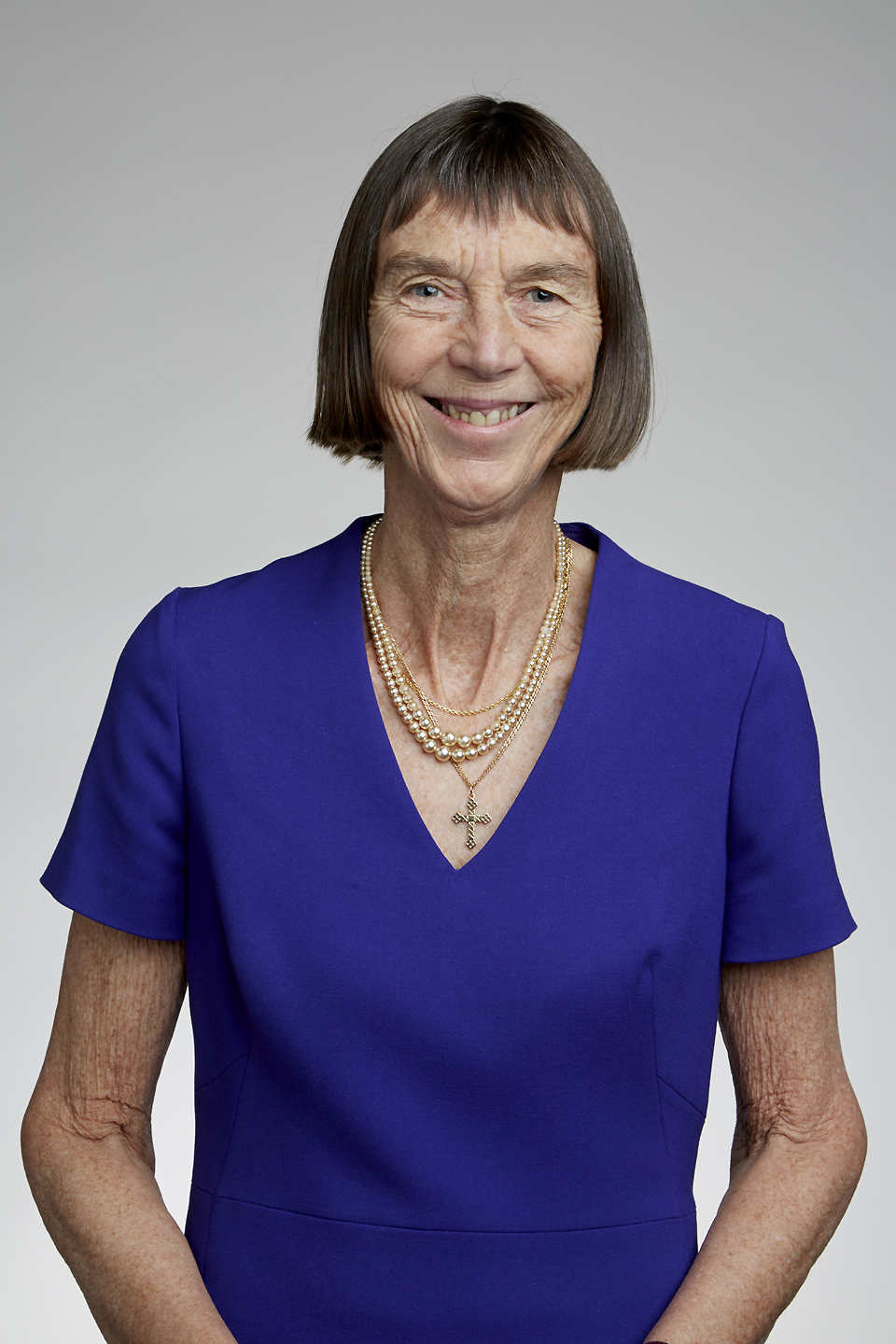 Dame Sue Ion FRS, FREng (née Burrows; 3 February 1955) is a British engineer and an expert advisor on the nuclear power industry Attribution: The Royal Society